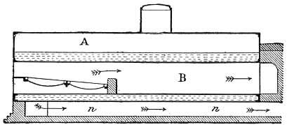 Cornish boiler, side-section (Heat Engines, 1913).jpg